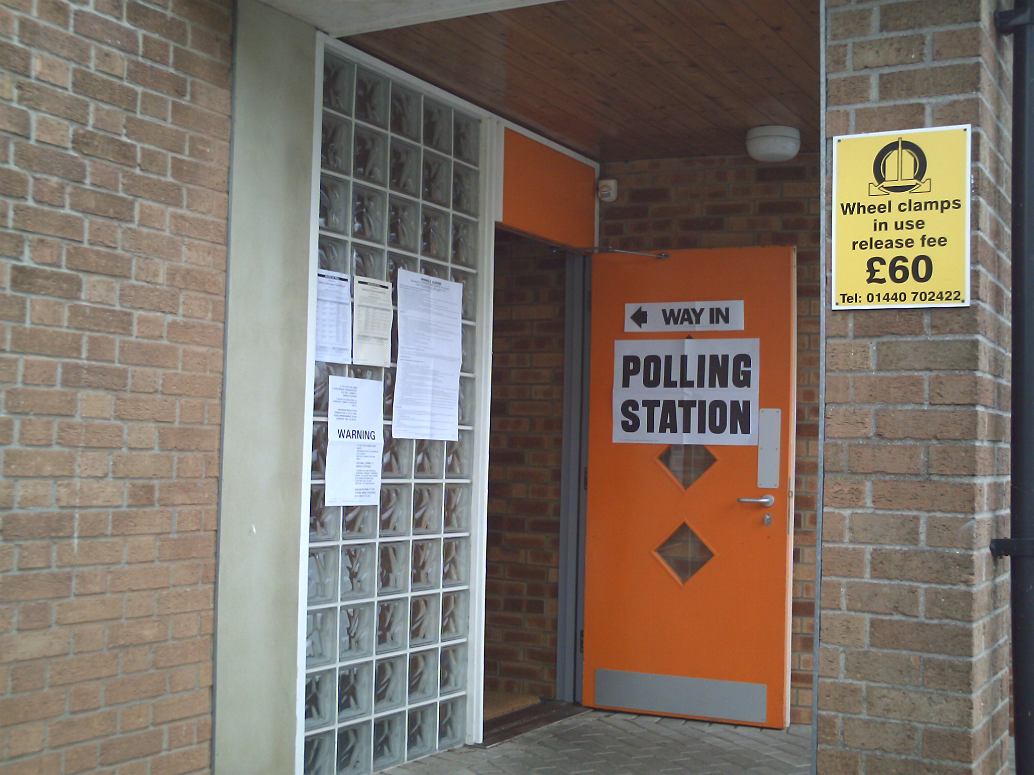 Entrance to a polling station (temporary in a Methodist Church) in the market town of Haverhill, Suffolk, United Kingdom on the 3rd May 2007 for the local elections. The posters on the left are lists of the candidates in wards contested (Haverhill North in St. Edmundsbury Borough Council and Haverhill North in Haverhill Town Council) and information about rules and laws about voting.